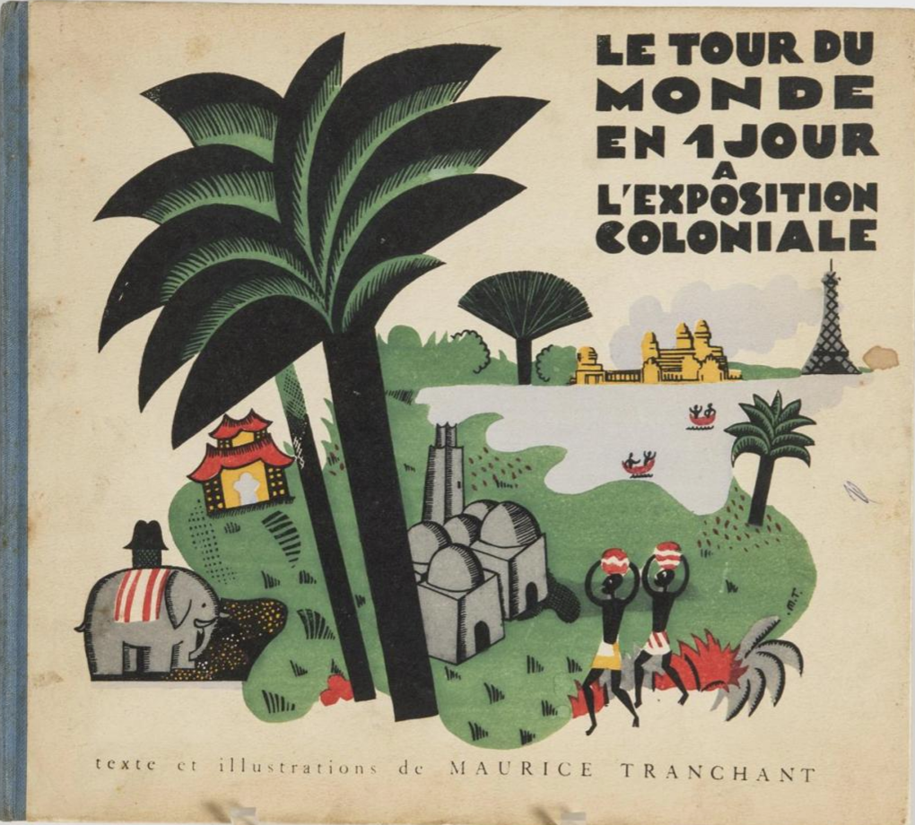 Book cover of the illustrated album Le Tour du Monde en 1 jour à l'Exposition coloniale, published in Paris: Studio du Palmier nain.